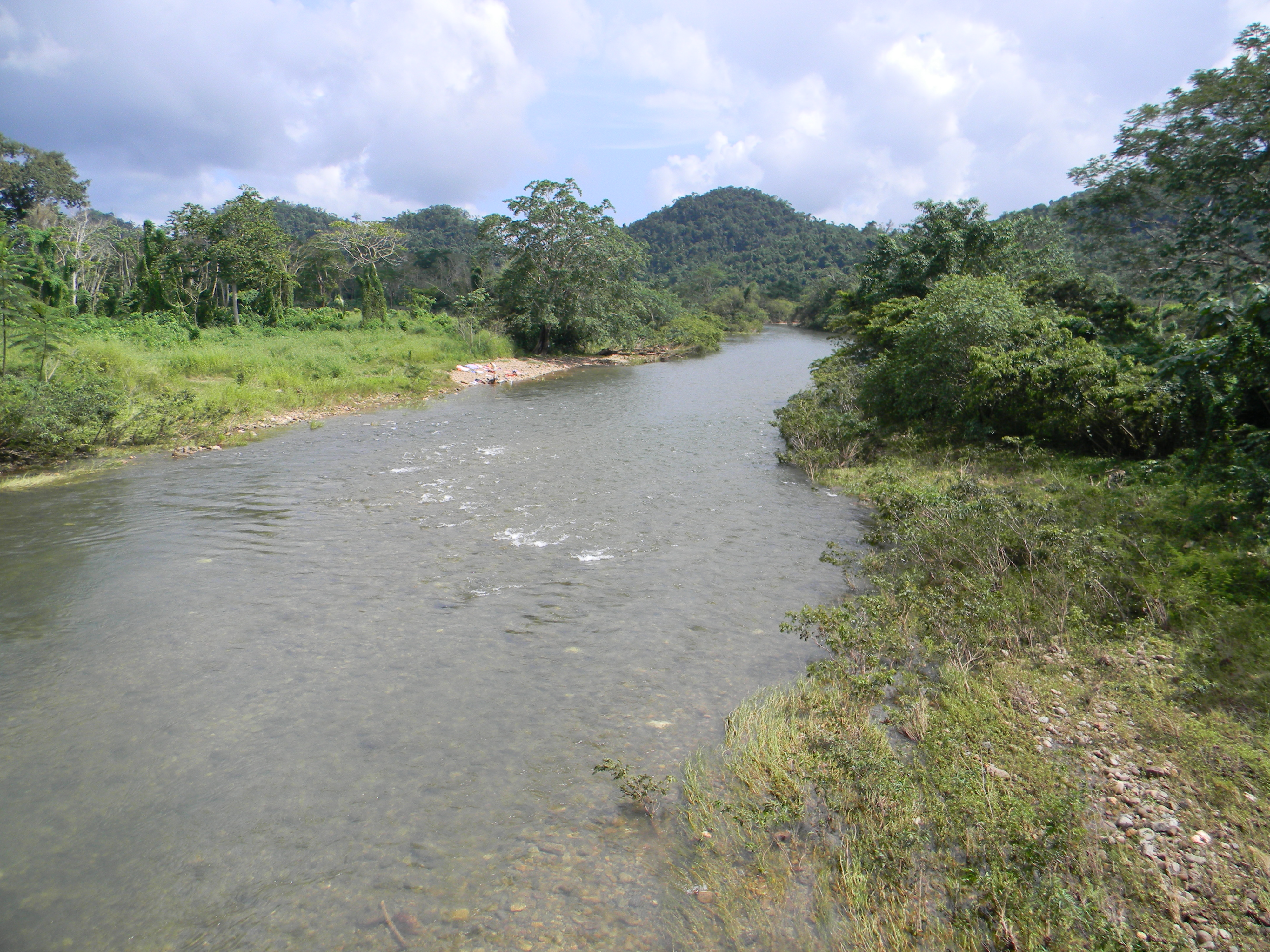 Sibun River, Belize view from Hummingbird HWY bridge